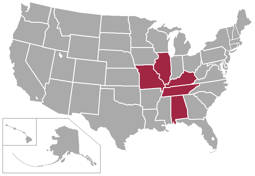 derived from [1]; map of states with Ohio Valley Conference schools